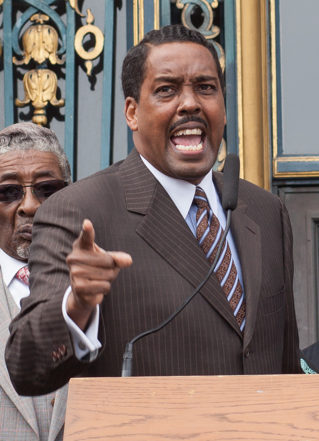 Minister Christopher Muhammad speaks at a podium on the steps of San Francisco City Hall.